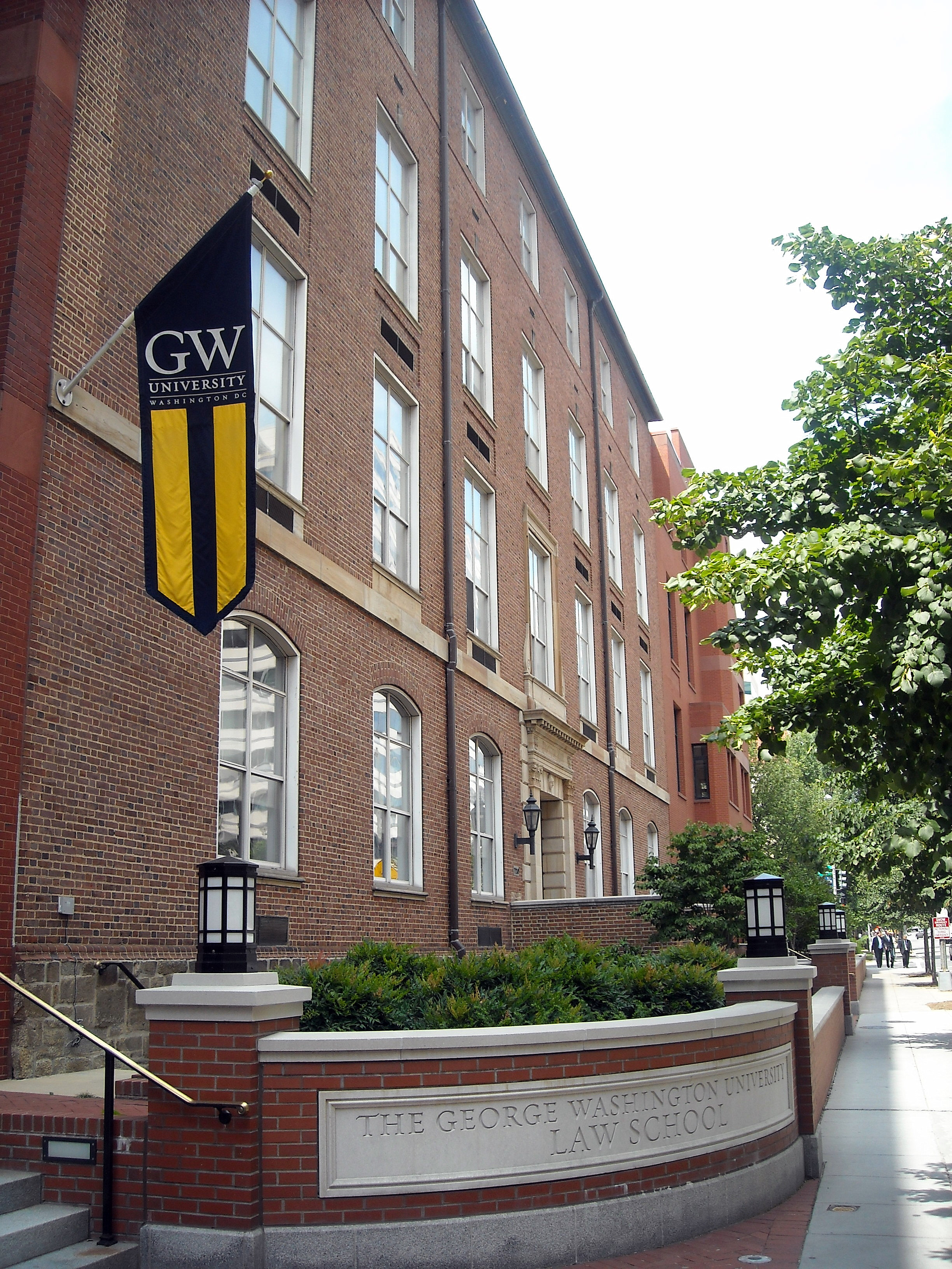 Outside of GWU Law School